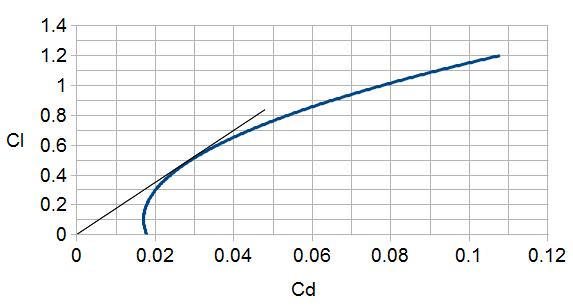 Plot of the drag polar CD = 0.017 + 0.075.(CL - 0.1)^2, parameter values typical of small aircraft. tangent is to point of maximum L/D